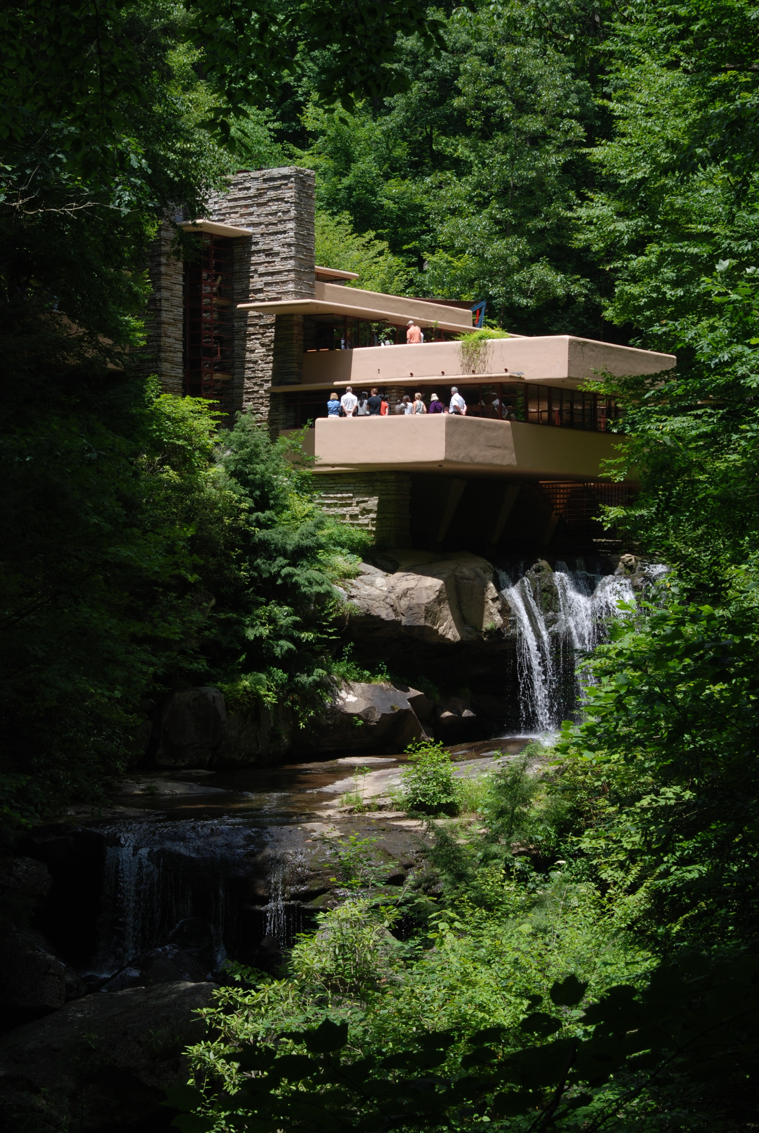 Fallingwater